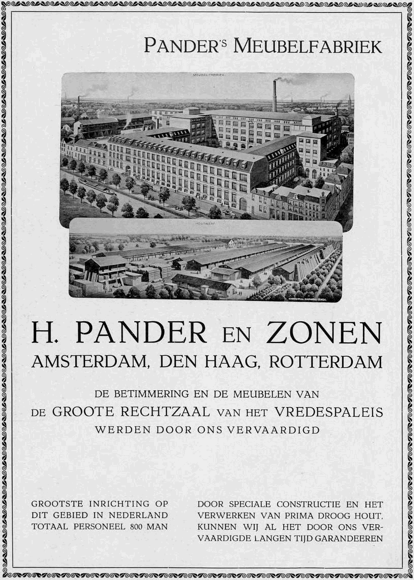 Advertisement of the furniture and aircraft manufacturer Pander & Zonen. The photos show the factory buildings in The Hague.